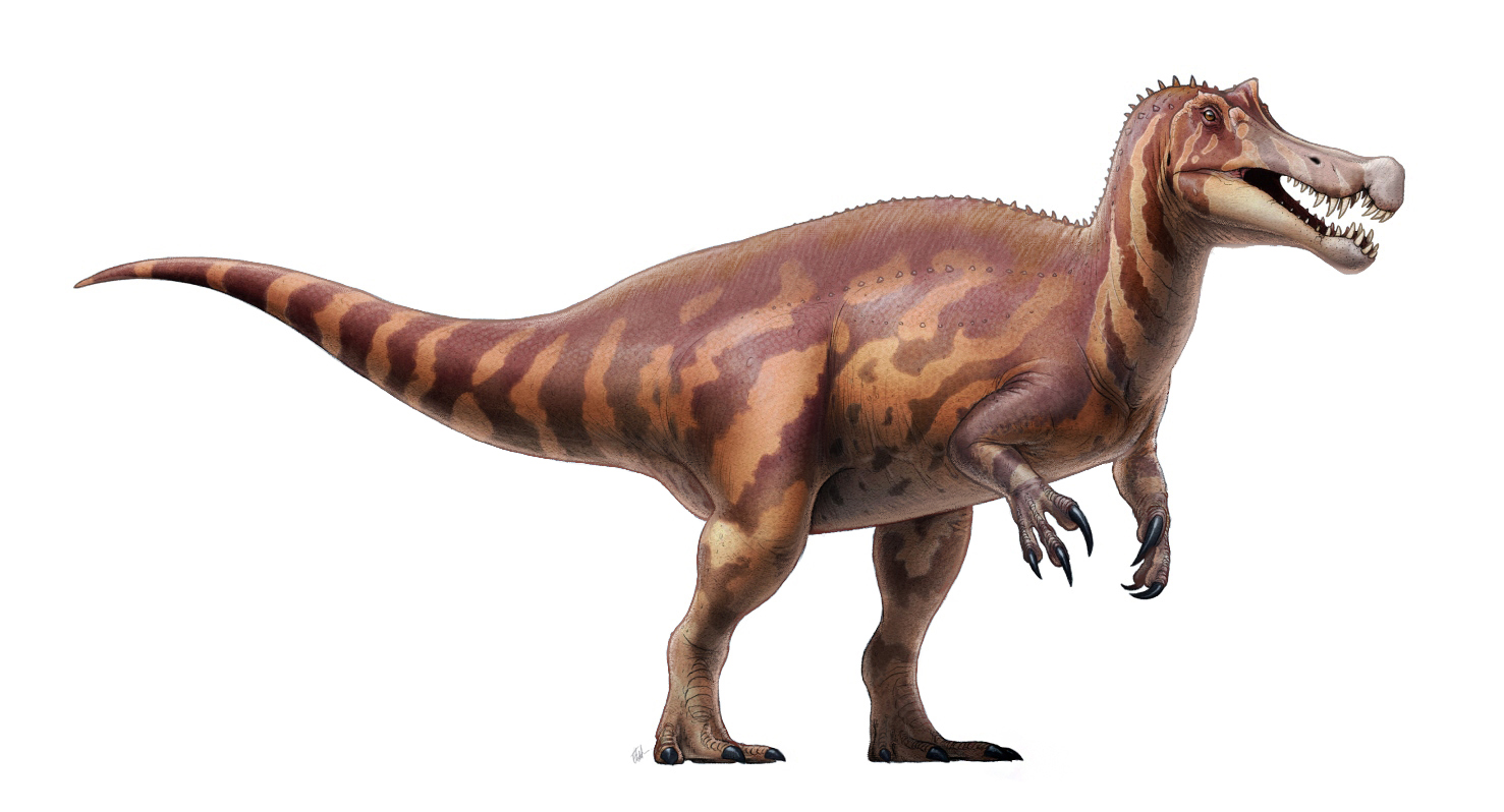 Full body life reconstruction of Irritator, based on the mounted skeleton at the National Museum of Rio de Janeiro.[1]